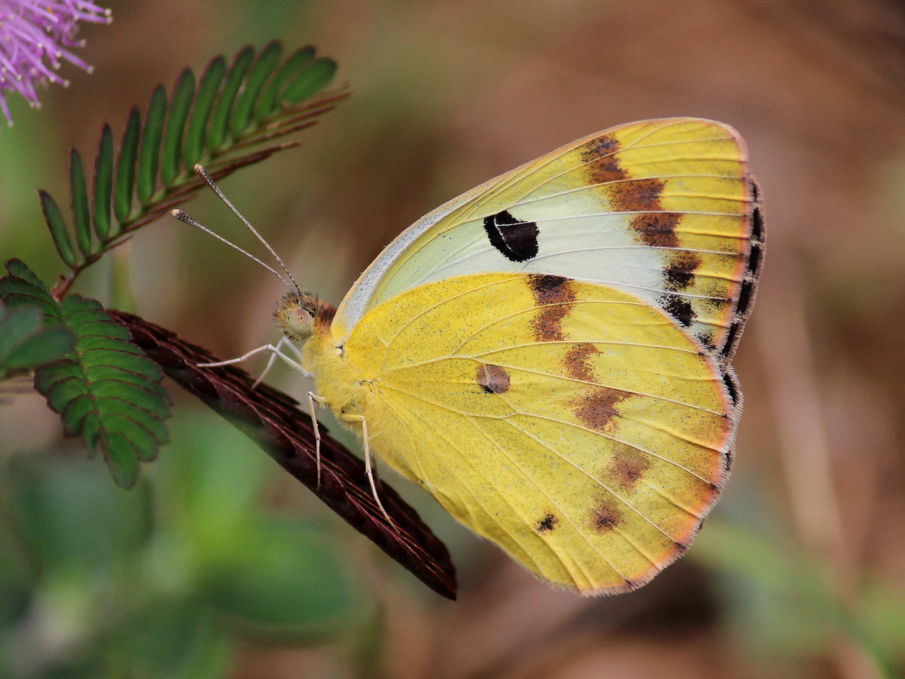 Colotis fausta in Melagiri